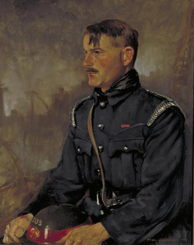 Three-quarter length portrait of fire-fighter in uniform, against a background of a damaged cityscape.